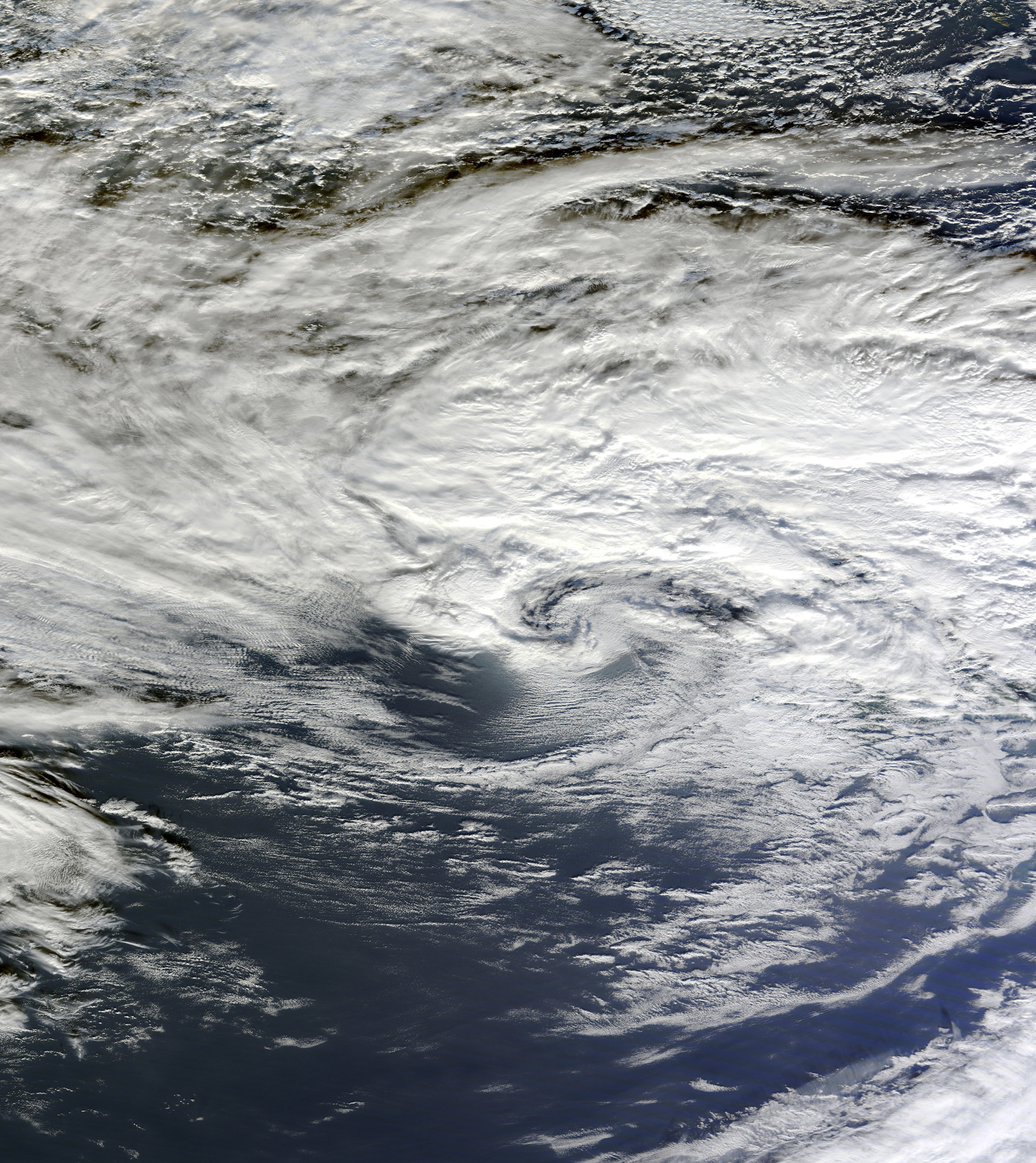 Storm Barney on November 17, 2015